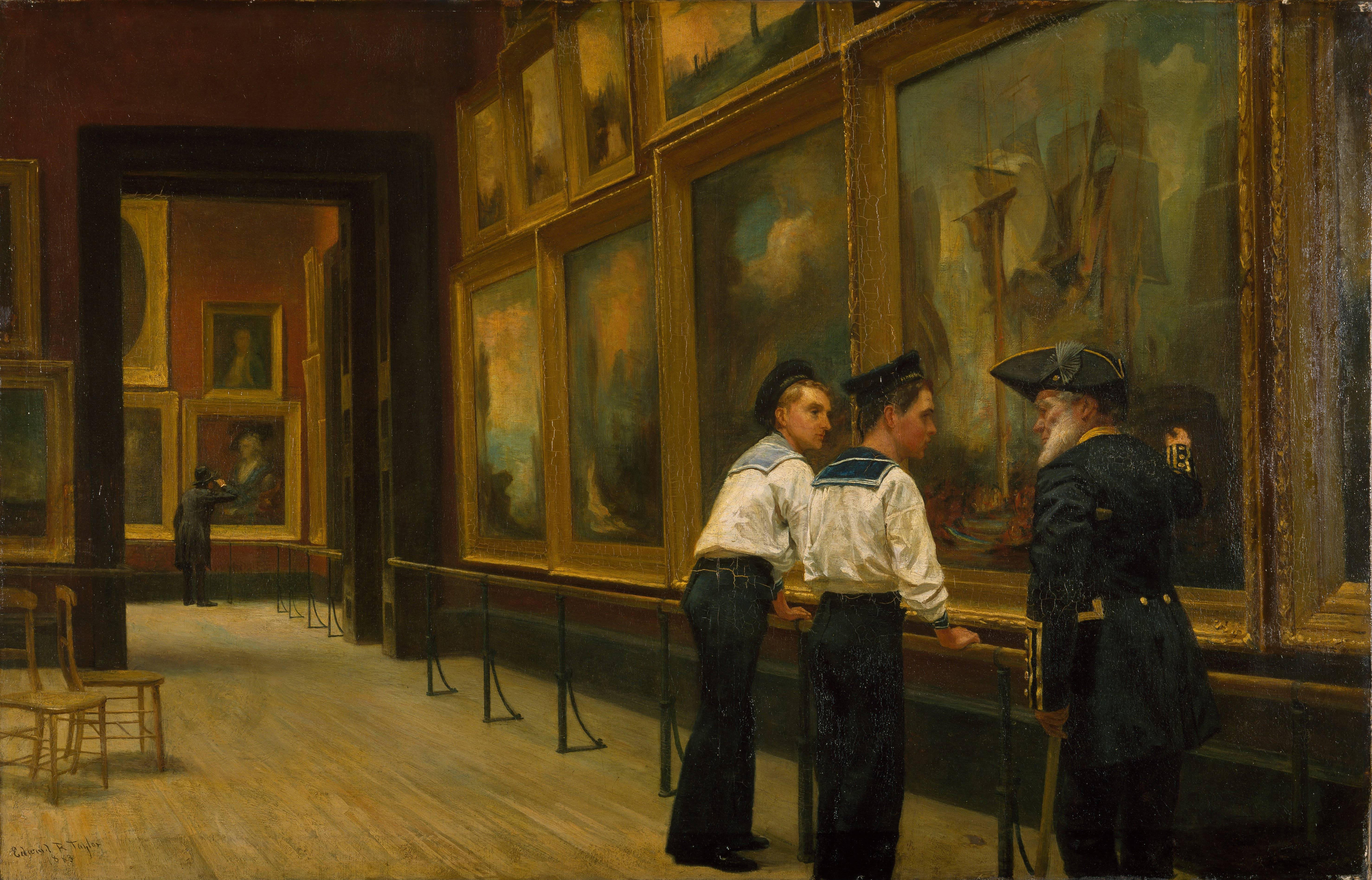 Twas a Famous Victory. Edward Richard Taylor. 1883. 1,218 by 793 millimetres (48.0 in × 31.2 in). Oil on canvas. Birmingham Museum and Art Gallery, via Google Cultural Institute